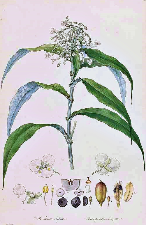 This is a scan of Plate 6 from Ferdinand Bauer's Illustrationes Florae Novae Hollandiae. The plant featured is Pollia crispata, then known as Aneilema crispata.